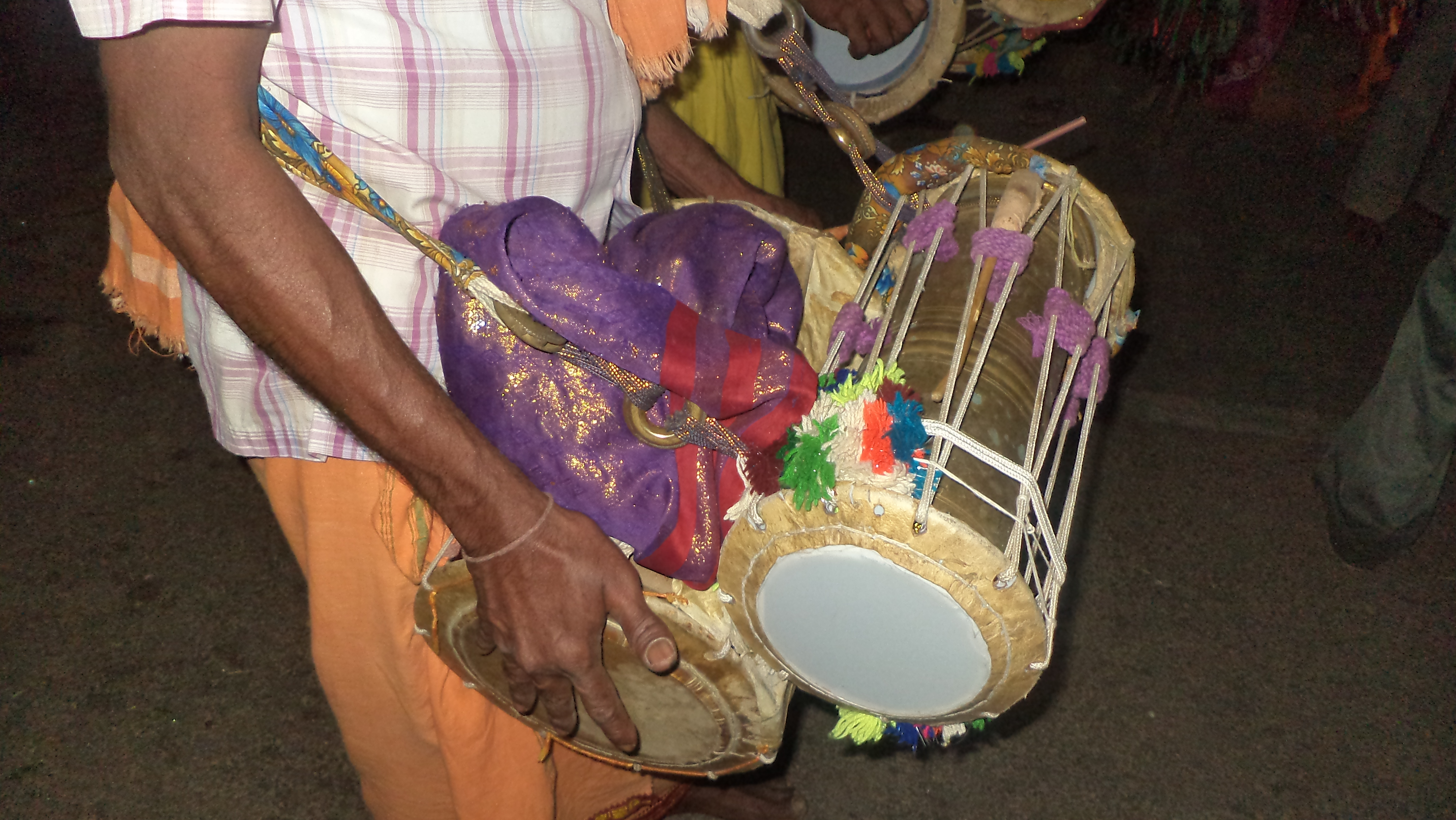 A musical instrument of the Tamils.